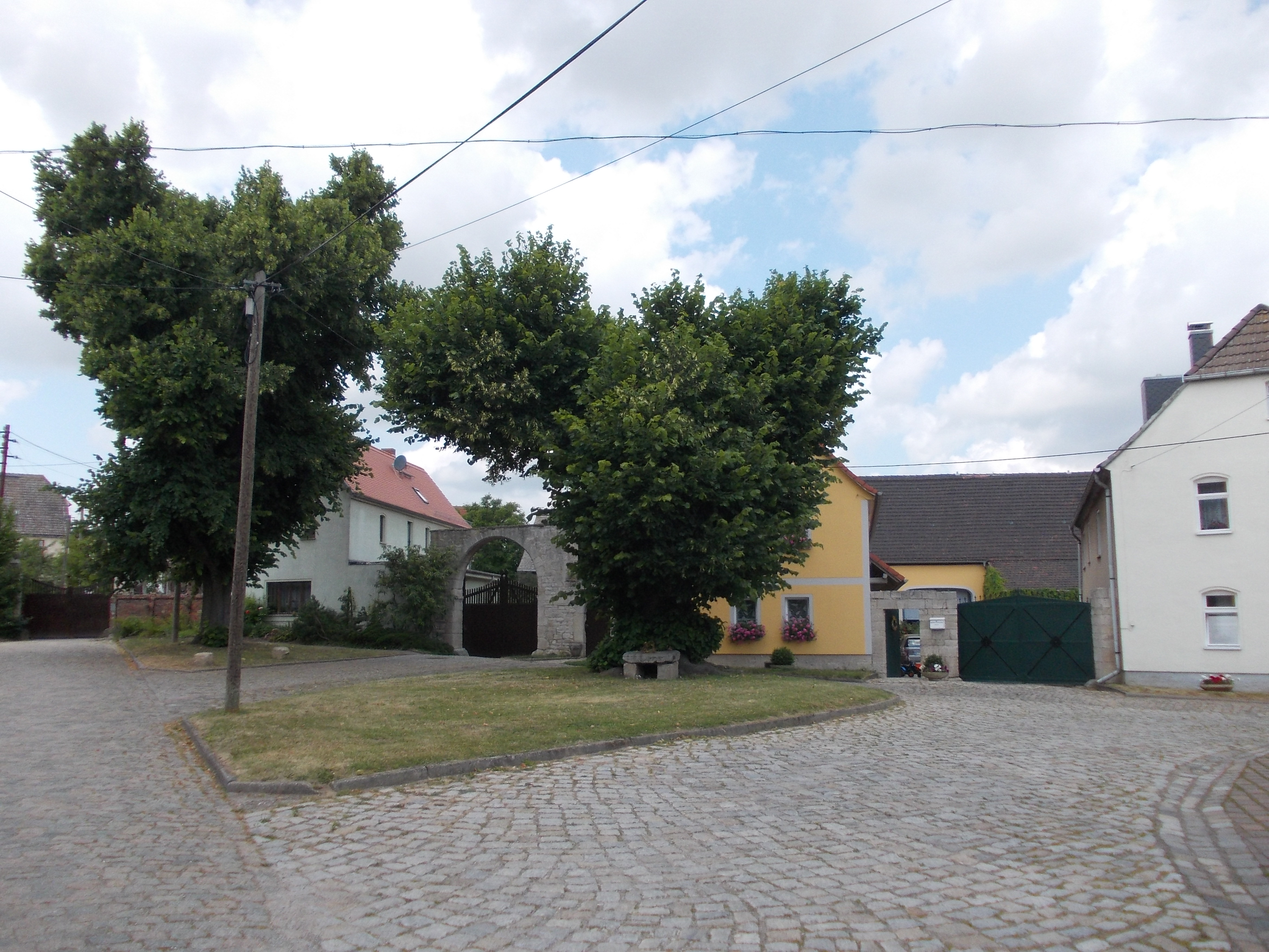 Bauernstein in Schleberoda (Freyburg/Unstrut, district: Burgenlandkreis, Saxony-Anhalt)